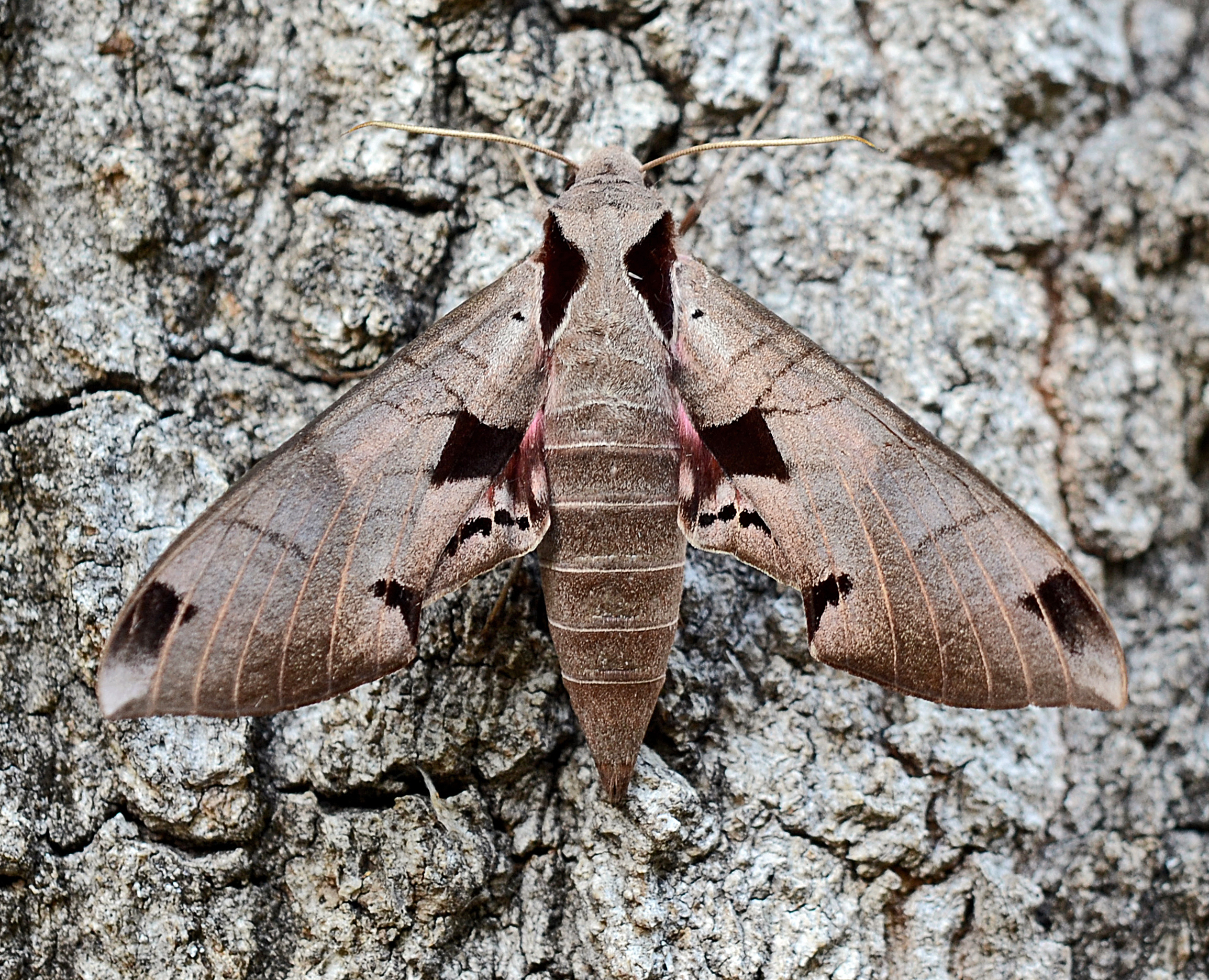 Sphingidae: Eumorpha achemon Seen in Gainesville, FL